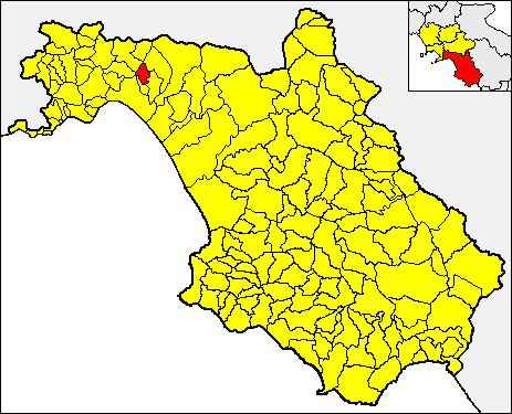 Locator map of the municipality of Castiglione del Genovesi (red) within the Province of Salerno